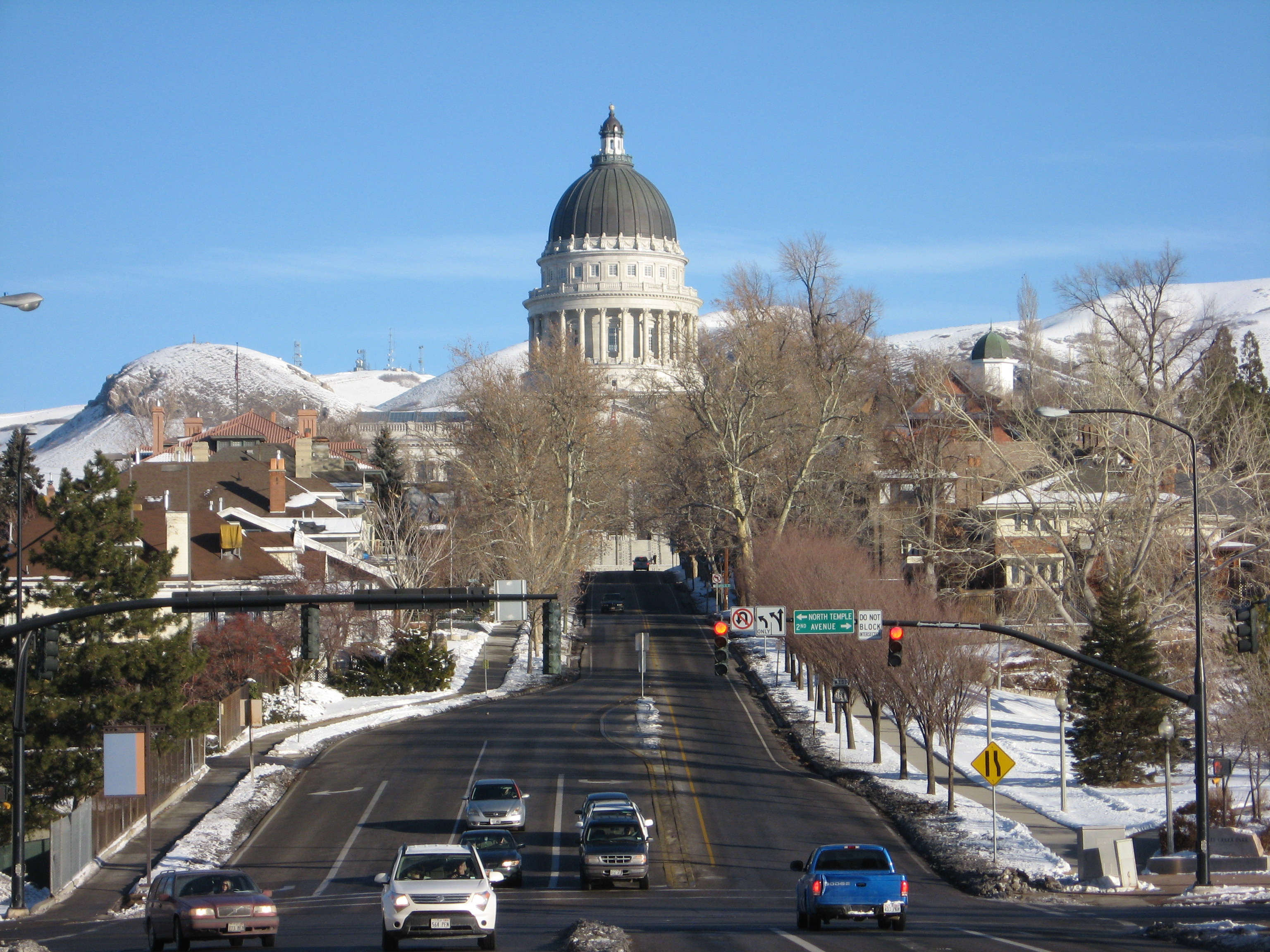 The Utah State Capitol seen from the south.